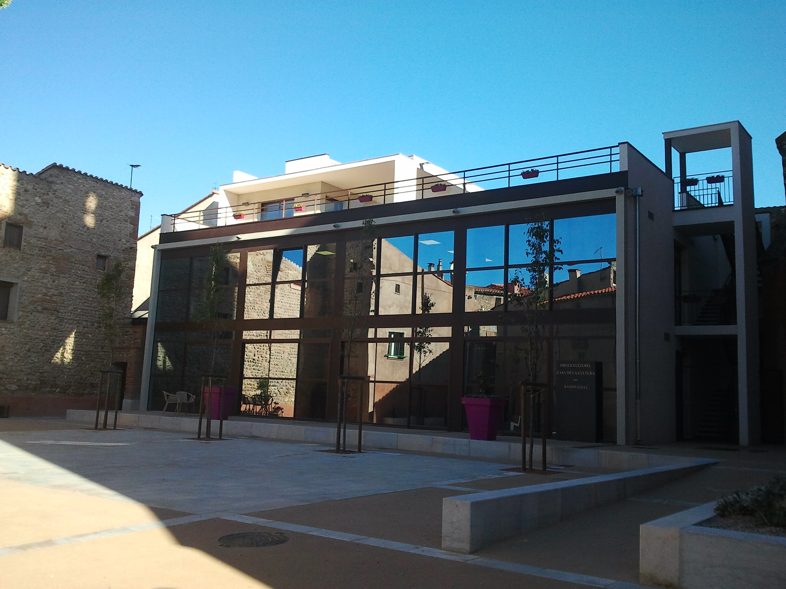 The public library in Pézilla-la-Rivière